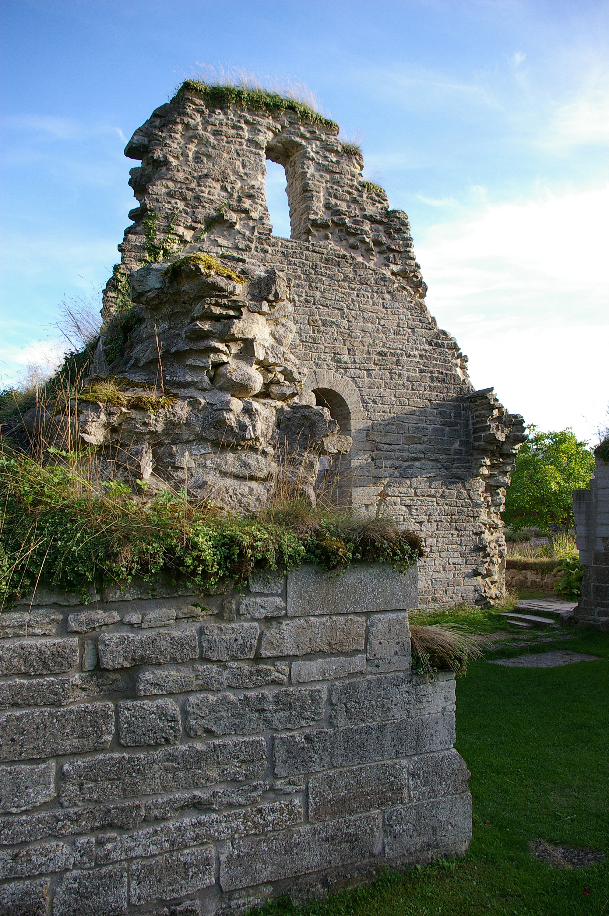 The monastery Alvastra in Sweden.